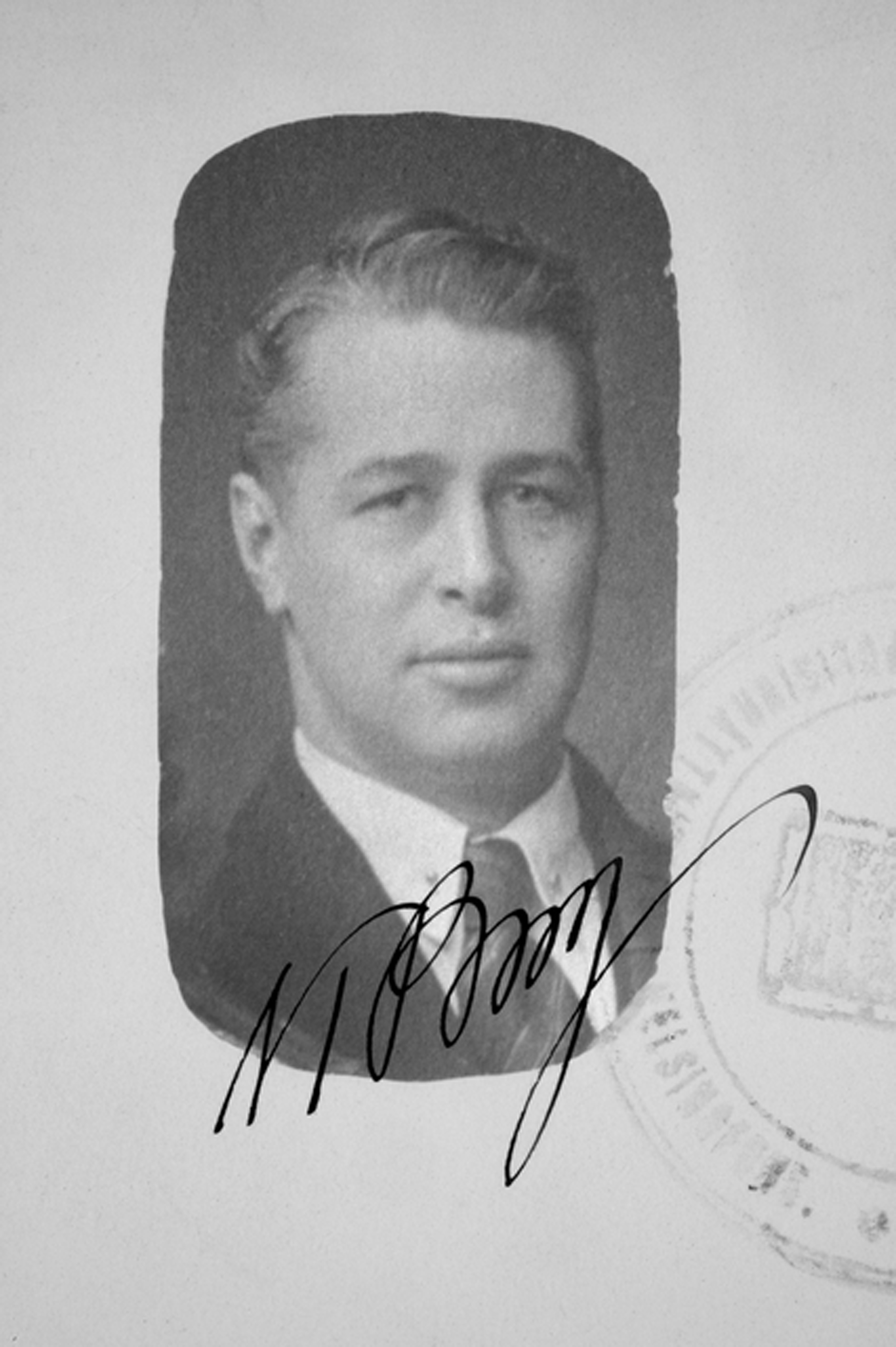 Passport photograph of the Finnish architect Kaarlo Borg (1888–1939).